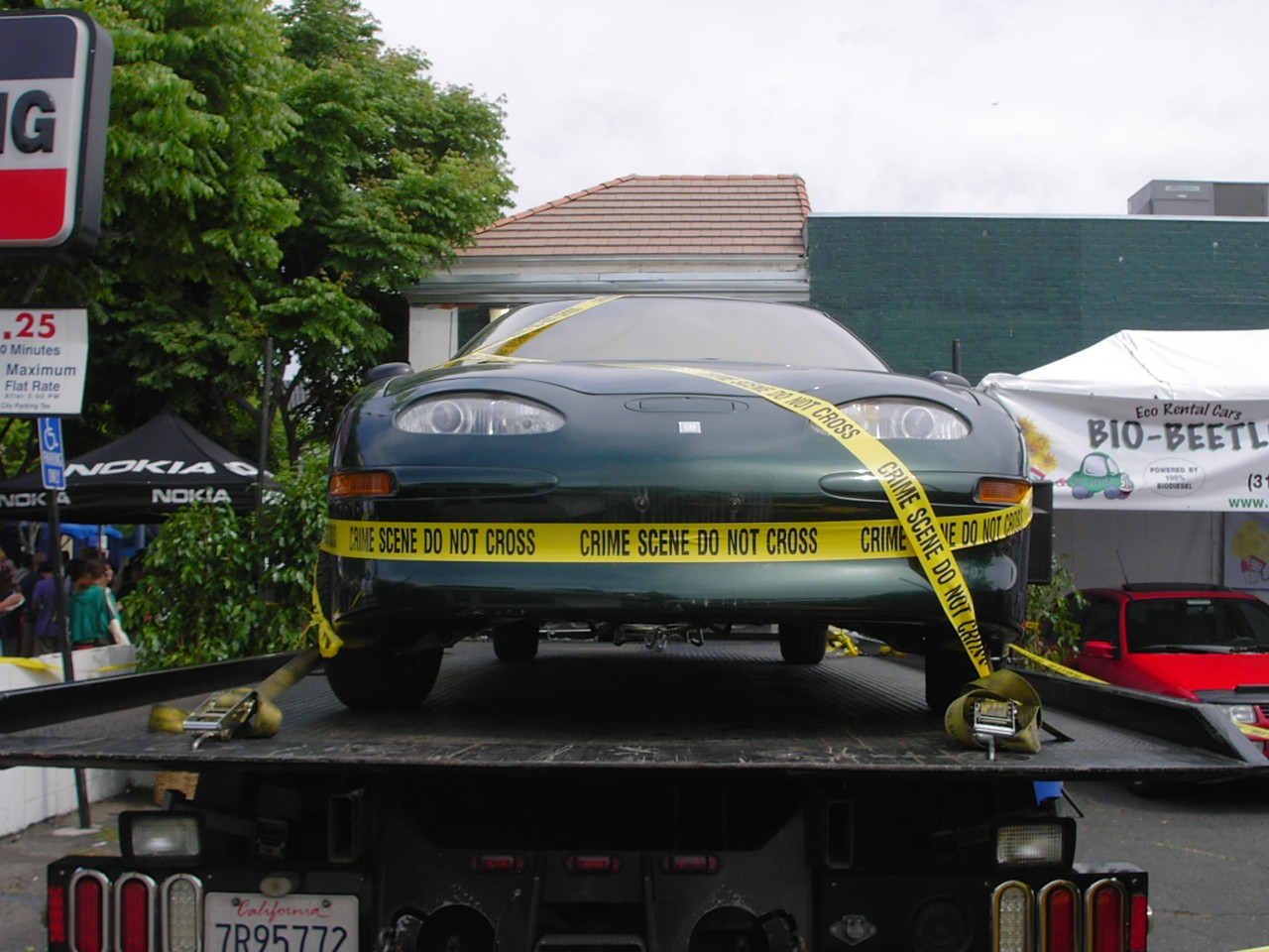 One of the EV1 all-electric cars that escaped destruction by General Motors Corporation in 2005.